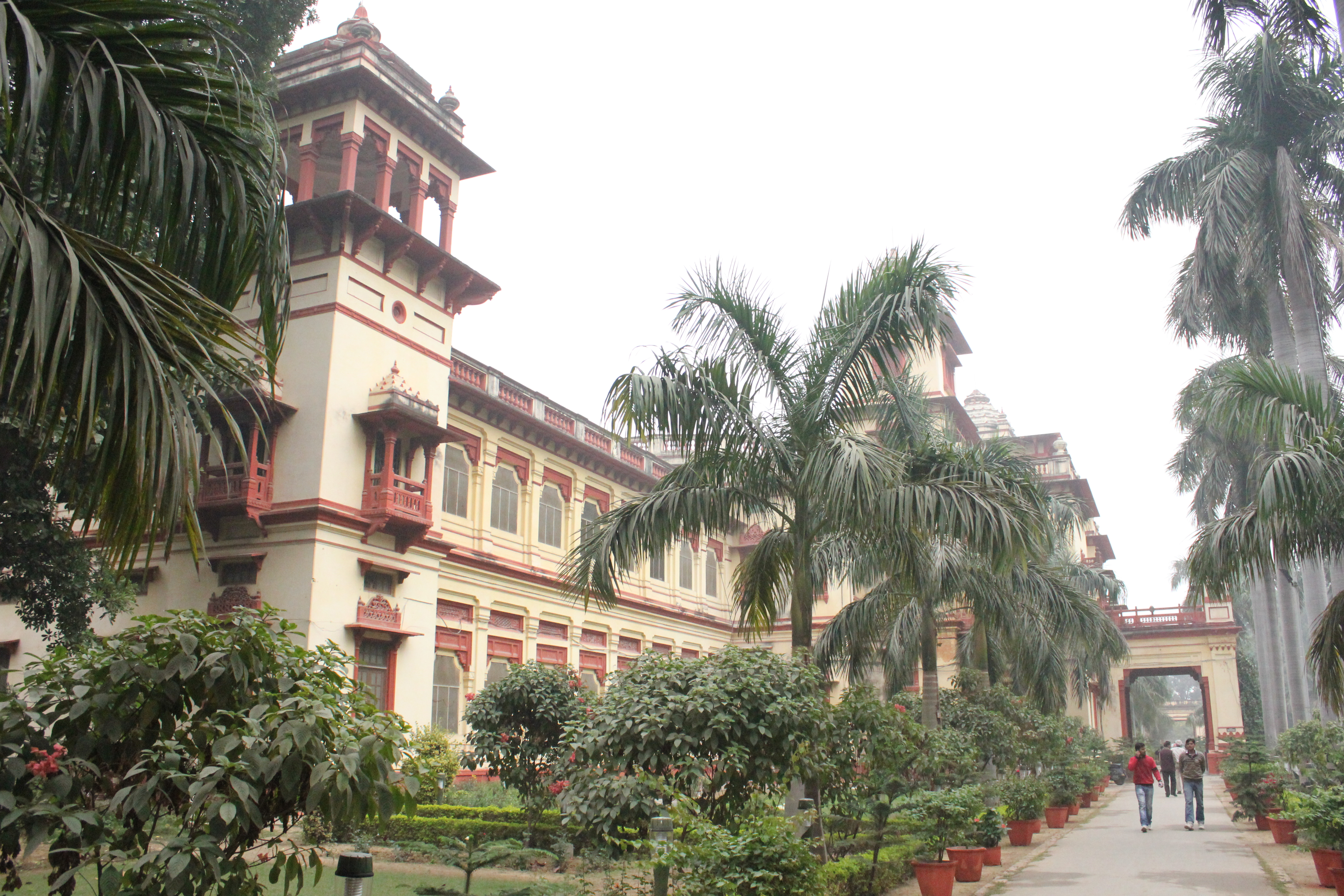 Picture take from right side of Sayaji Rao Gaekwad Library, BHU; also known as Central Library in the Banaras Hindu University